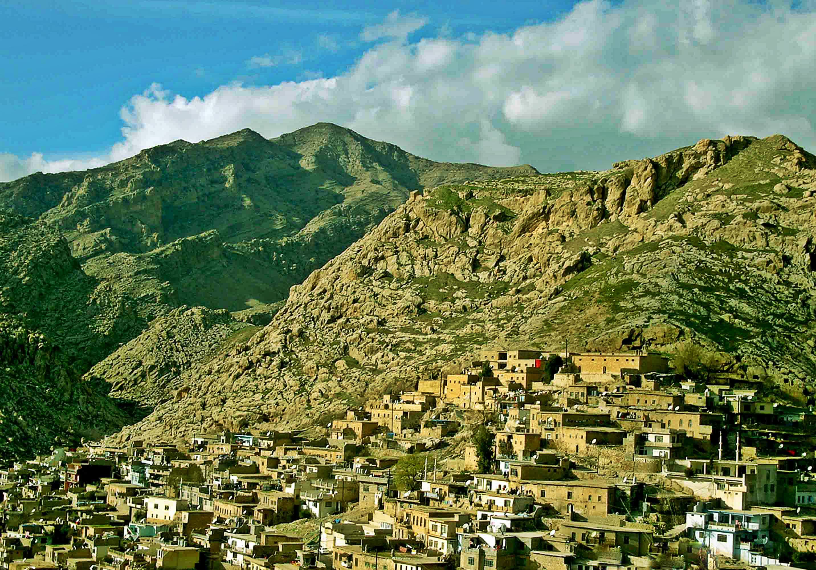 View on the city of Akre in Iraqi Kurdistan.